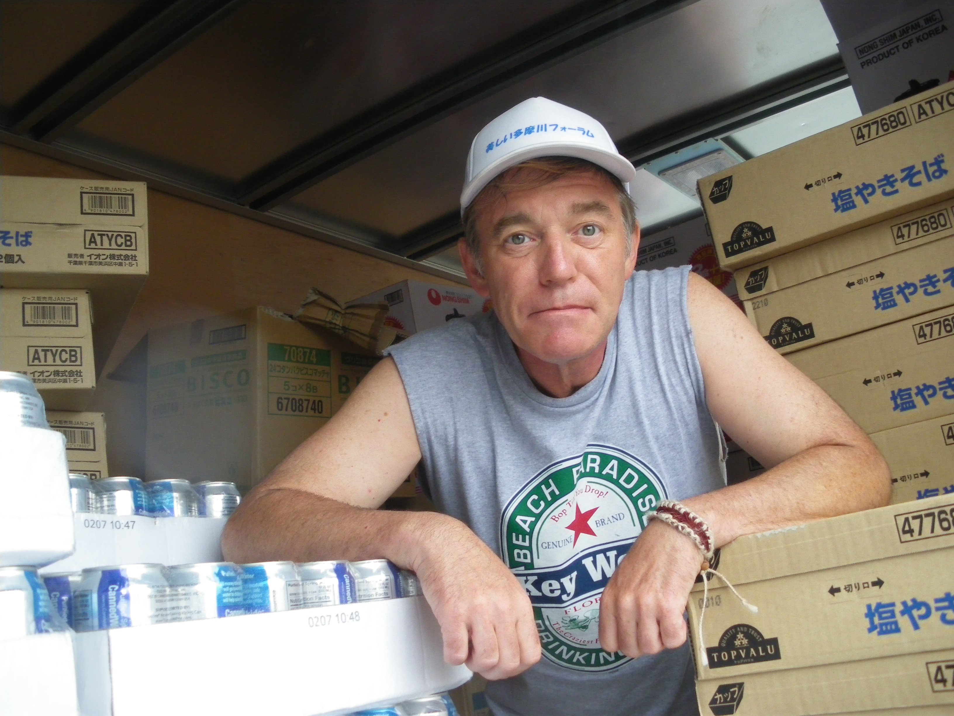 Daniel Kahl delivering supplies to Fukushima, Japan